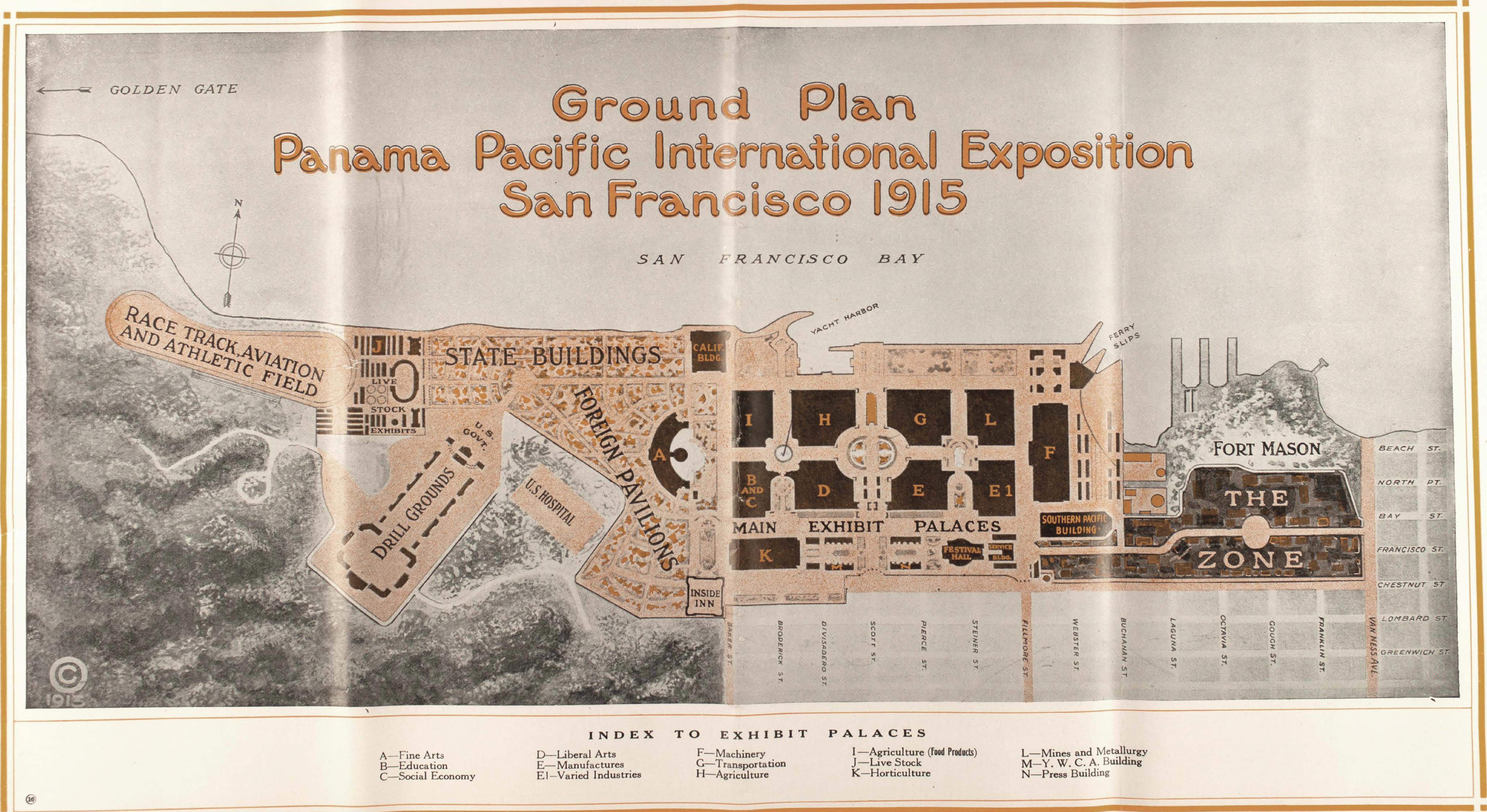 Title: High Points on Four Great High Ways to the California Expositions Year: 1915 (1910s) Authors: Southern Pacific Company Subjects: San Diego California 1915 Panama-California Exposition Panama-Pacific International Exposition San Francisco Publisher: View Book Page: Book Viewer About This Book: Catalog Entry View All Images: All Images From Book Click here to view book online to see this illustration in context in a browseable online version of this book. Text Appearing Before Image: mn Pkotograpked January 15, 1915 Opened February 20, 1915Completely Ready • ® Text Appearing After Image: - 1 )• ^ 1 $1 ■pr 3Sfi Us9f , if COURT OF THE FOUR SEASONS